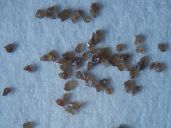 Grains of Proshchenkoite-(Y) (Grain size up to 0.3 mm) Locality: Tommot, Yakutia, Russia